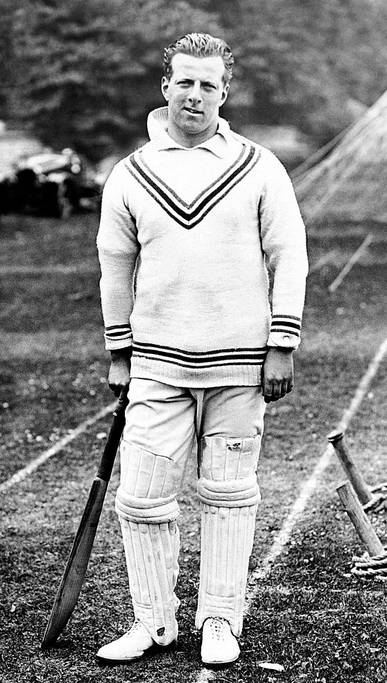 The Right Honorable Lord Lionel Hallam Tennyson, Hampshire County cricket team, circa 1922.